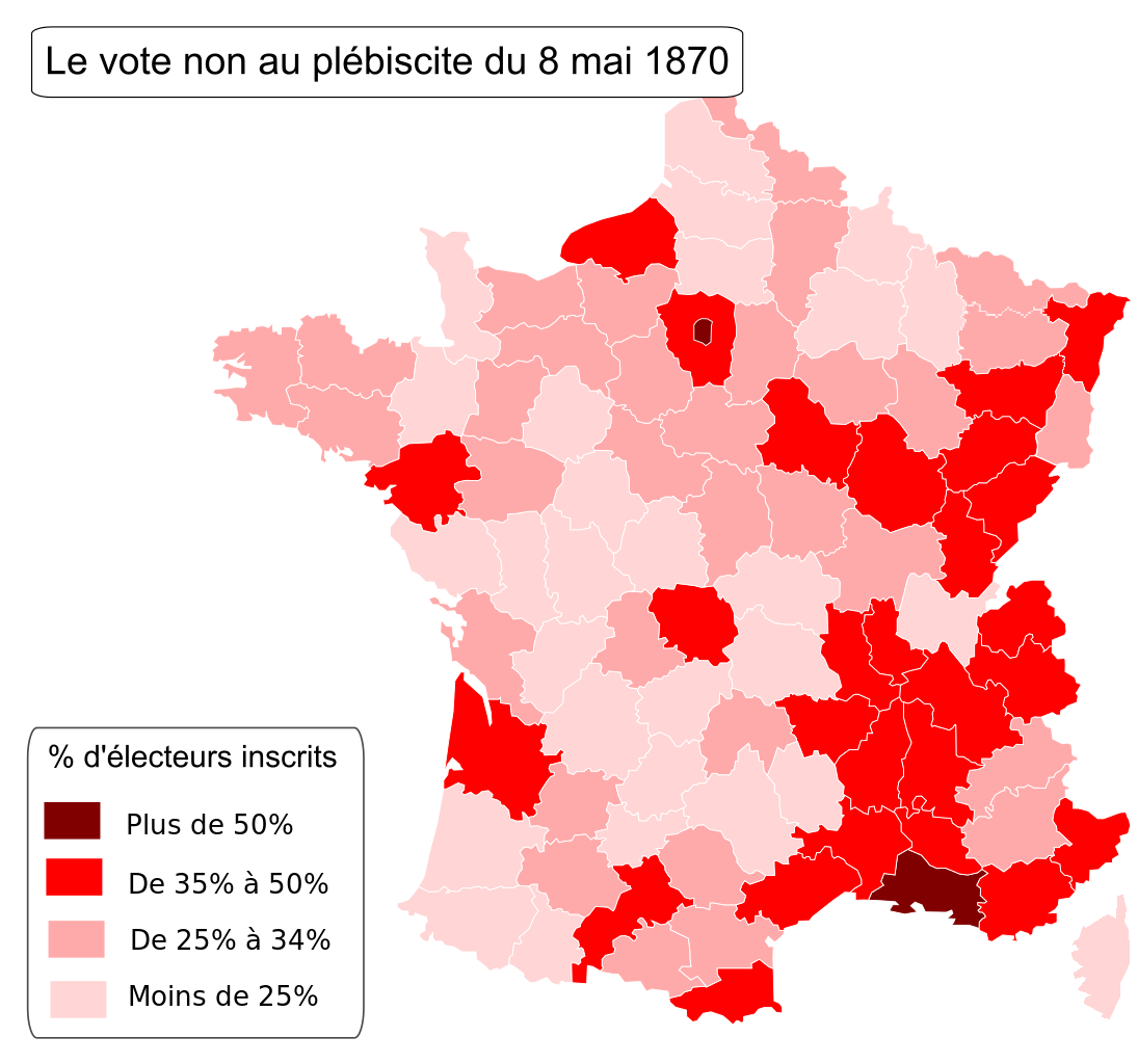 vote May 8th 1870 in France